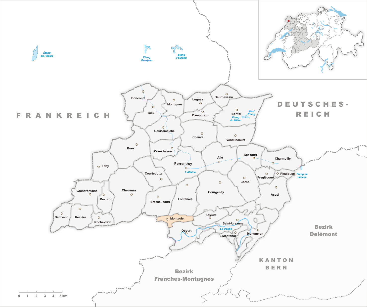 Municipality Montvoie Artist: Tschubby